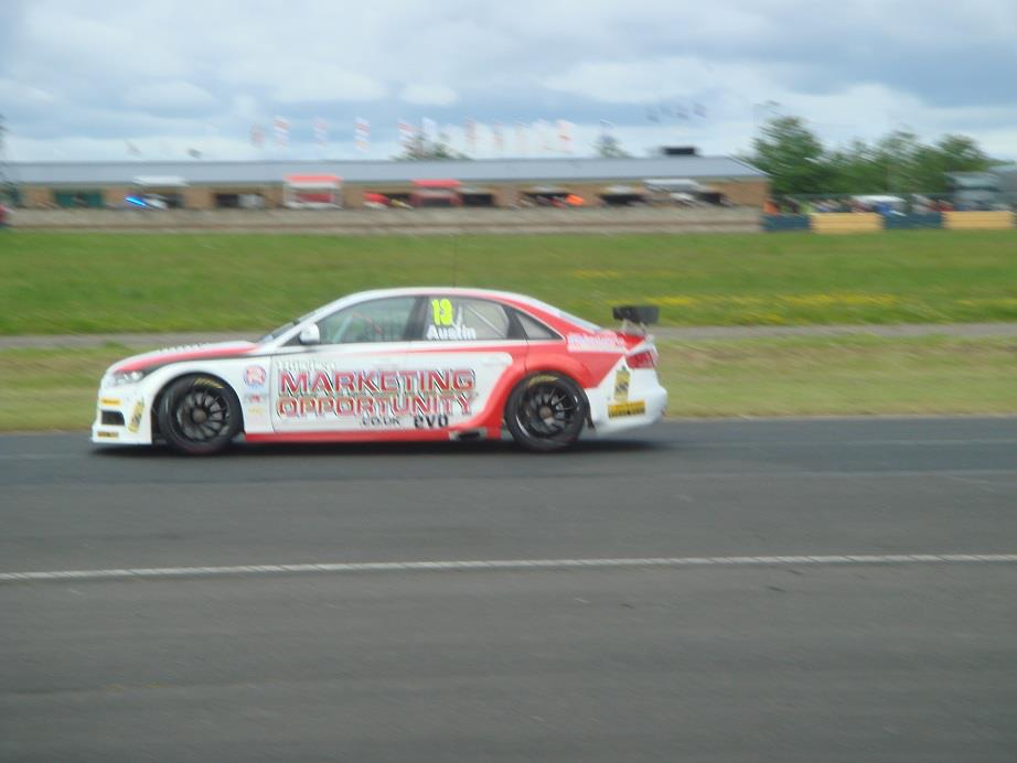 Rob Austin's 2012 BTCC Audi A4, at Croft racing circuit.